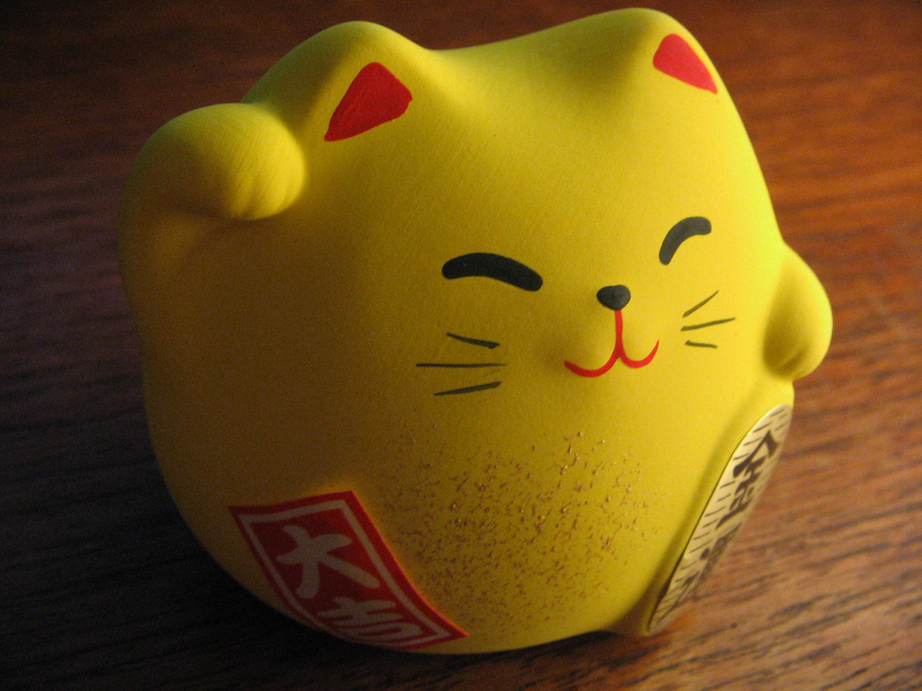 The Maneki Neko, Japanese cat of luck.